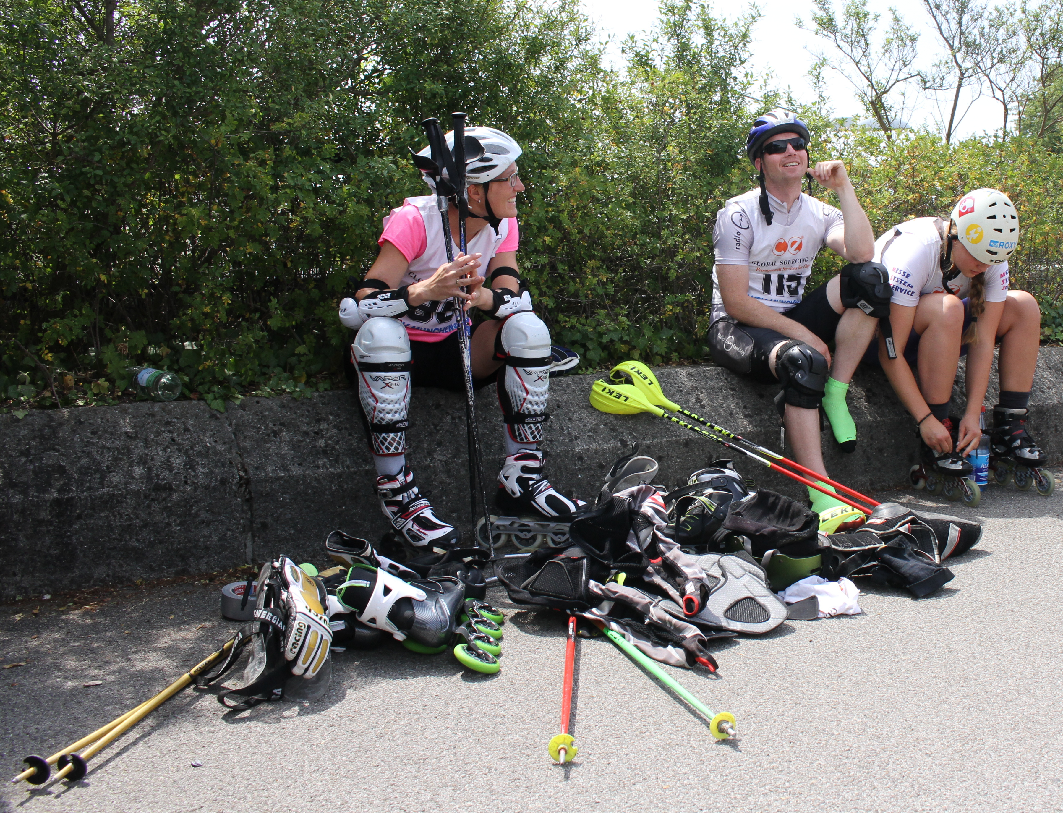 Inline-Alpin - protective and other gear before start - Internationaler Münchner Inline Cup, Westpark, München.